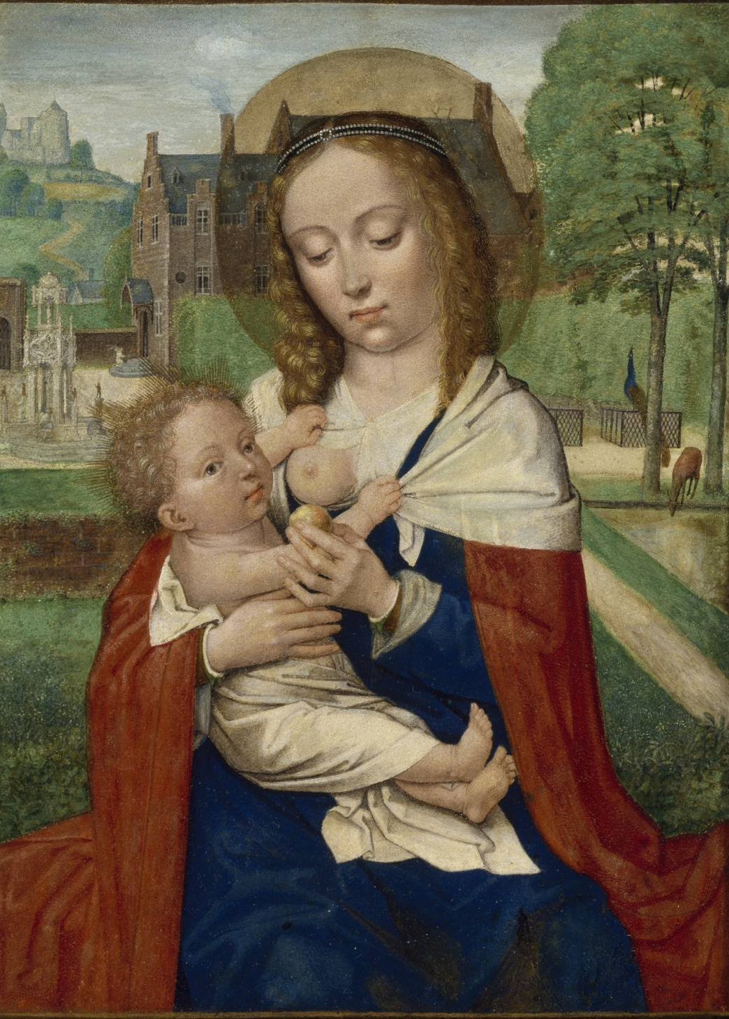 This image is available from the Netherlands Institute for Art Historyunder digital ID 50348. This tag does not indicate the copyright status of the attached work. A normal copyright tag is still required. See Commons:Licensing.